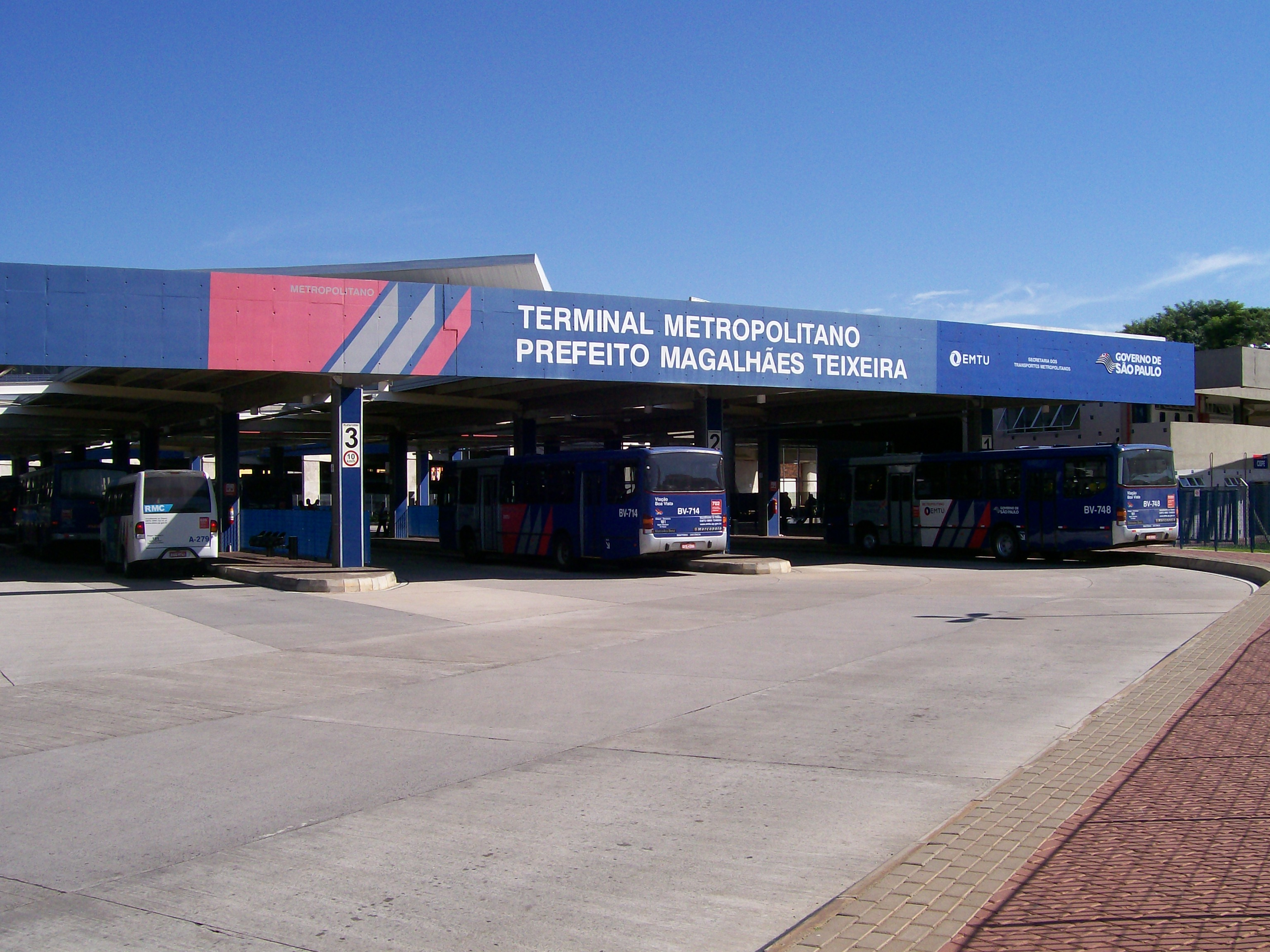 A Bus Station in Campinas, Brazil, for Campinas Metro Area.